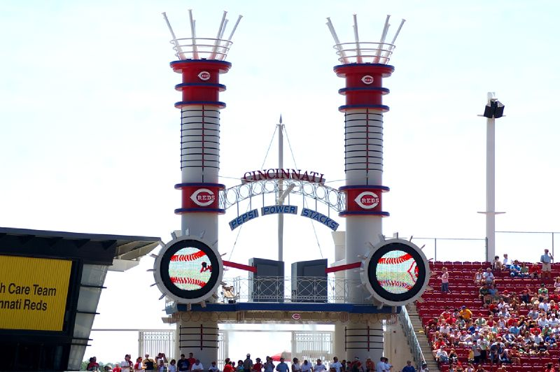 really big